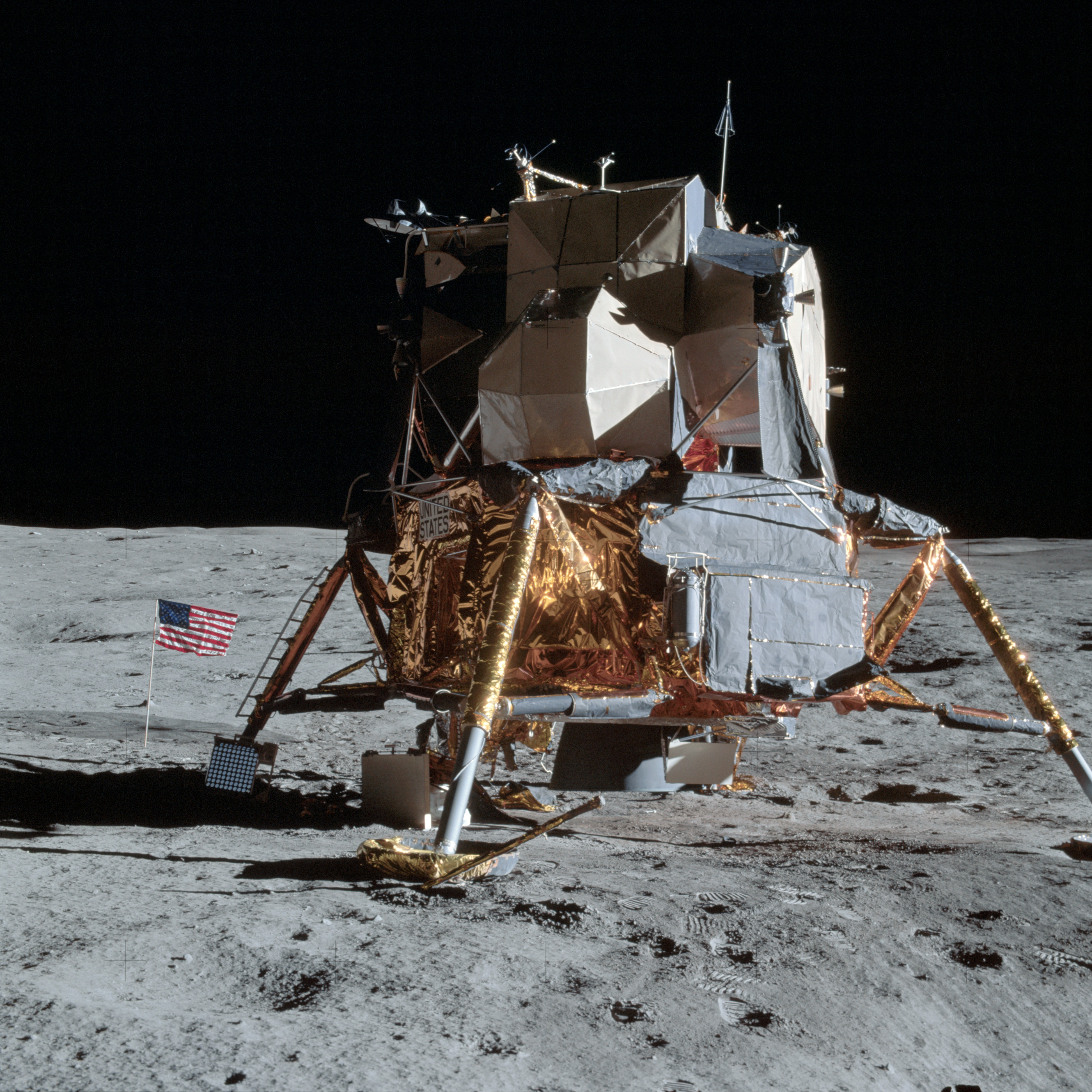 AS14-66-9277 (5 Feb. 1971) --- An excellent view of the Apollo 14 Lunar Module (LM) on the moon, as photographed during the first Apollo 14 extravehicular activity (EVA) on the lunar surface. The astronauts have already deployed the U.S. flag. Note the laser ranging retro reflector (LR-3) at the foot of the LM ladder. The LR-3 was deployed later. While astronauts Alan B. Shepard Jr., commander, and Edgar D. Mitchell, lunar module pilot, descended in the LM to explore the moon, astronaut Stuart A. Roosa, command module pilot, remained with the Command and Service Modules (CSM) in lunar orbit.